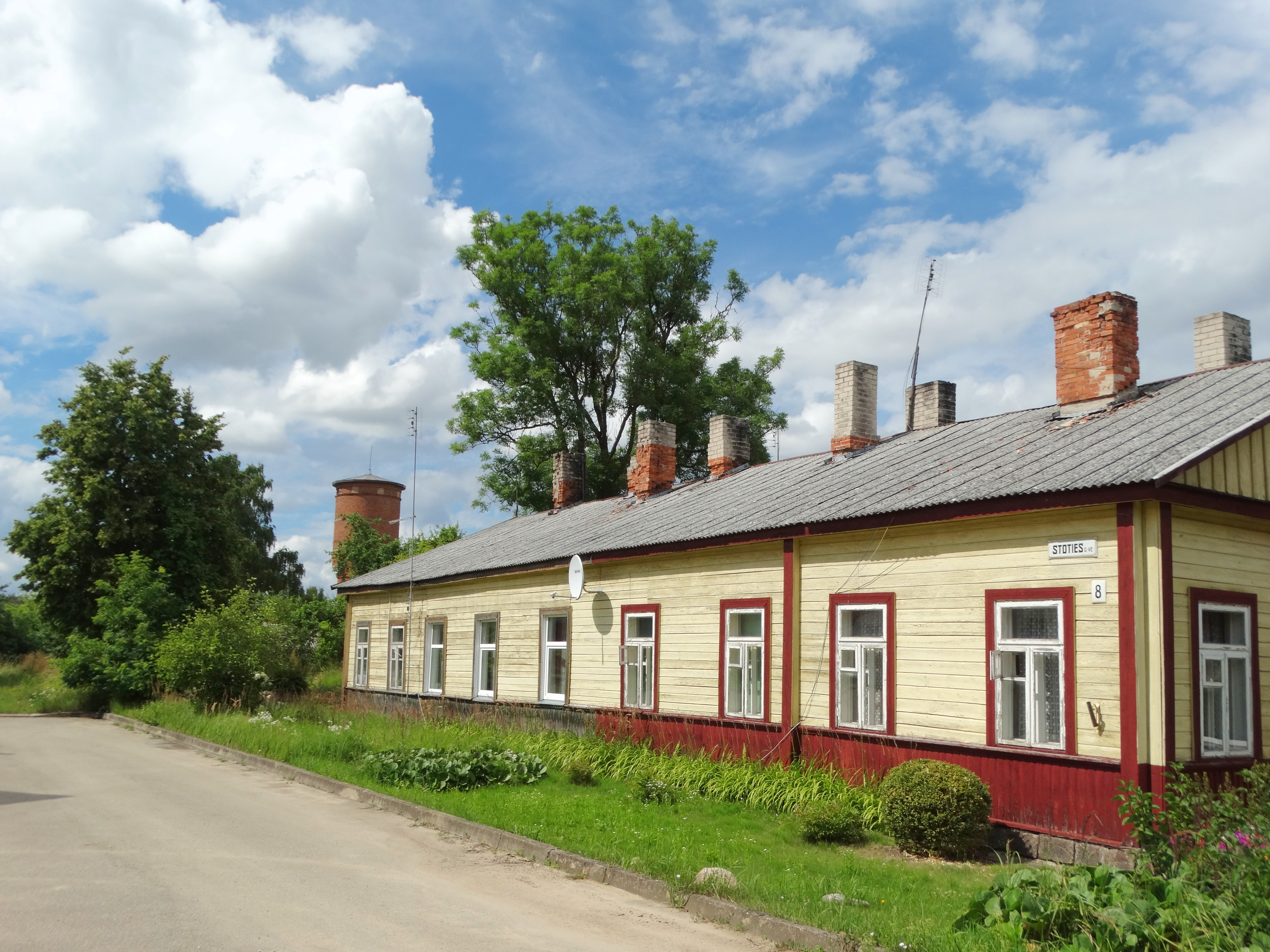 Subačius railway station, dwelling house, Kupiškis District, Lithuania